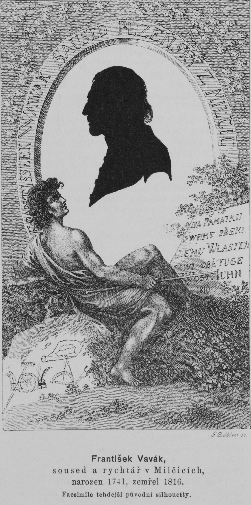 Silhouette of Jan František Vavák (1741 - 1816), a Czech vogt, poet and author of chronicle.